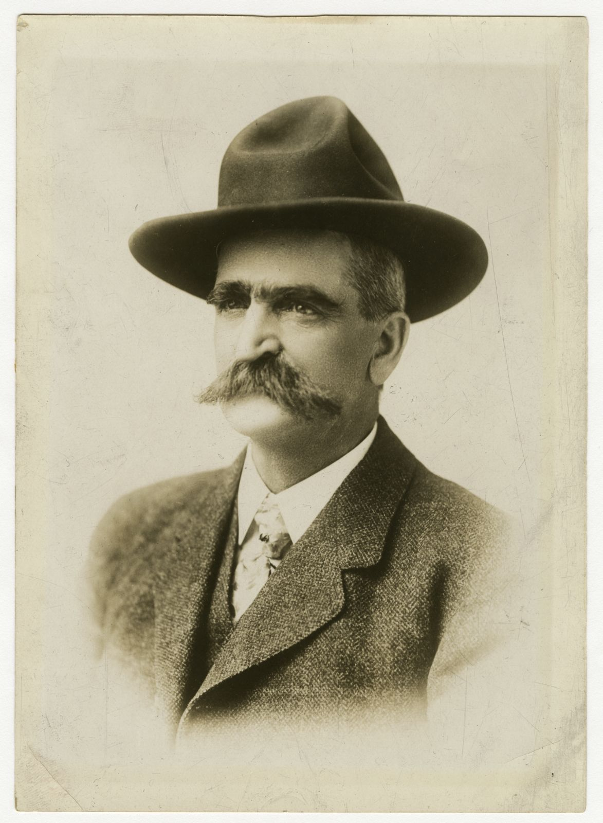 Photo of Seth Bullock - Seth Bullock. 1893 Theodore Roosevelt Birthplace National Historic Site. Theodore Roosevelt Digital Library. Dickinson State University.